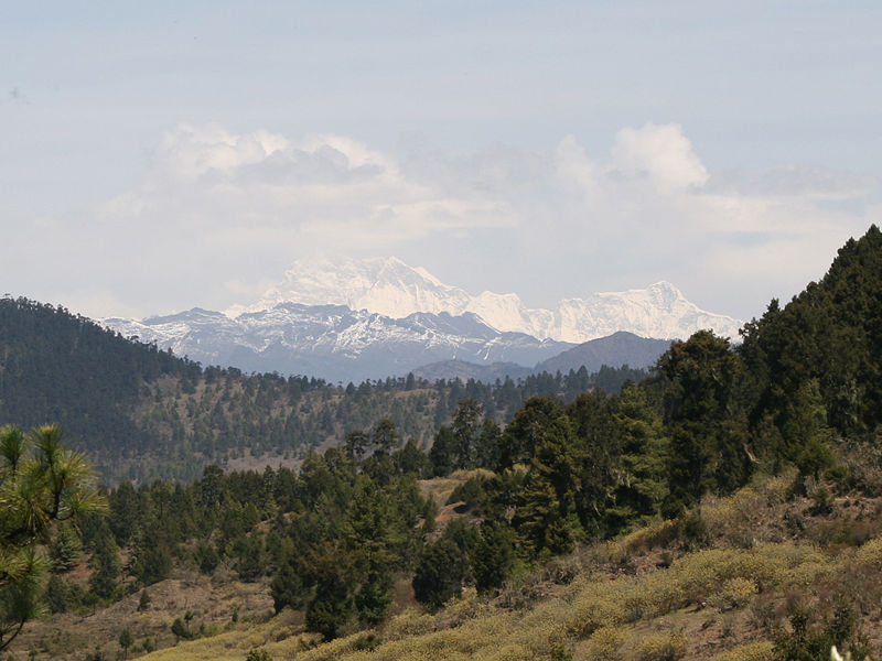 Gangkhar Puensum from Cher-tang-la (Pronounced: shea-tang-la), Bhutan